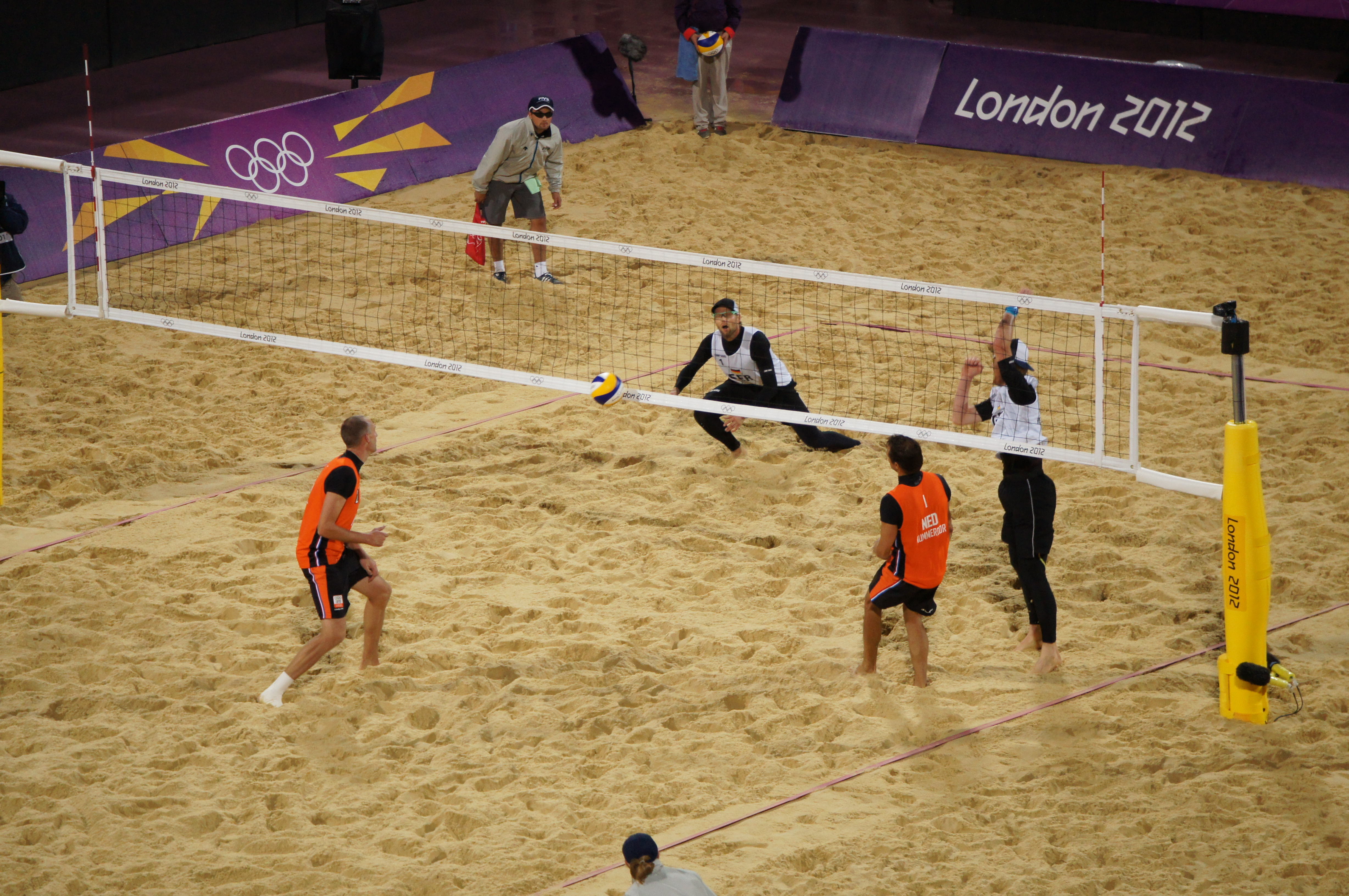 London 2012 Beach Volleyball Germany v Netherlands